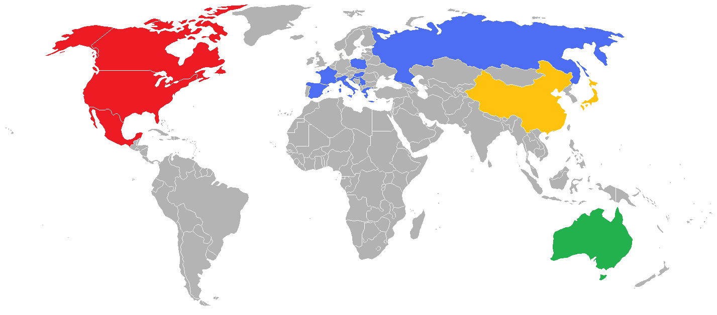 men's water polo - universiade 2009 - teams